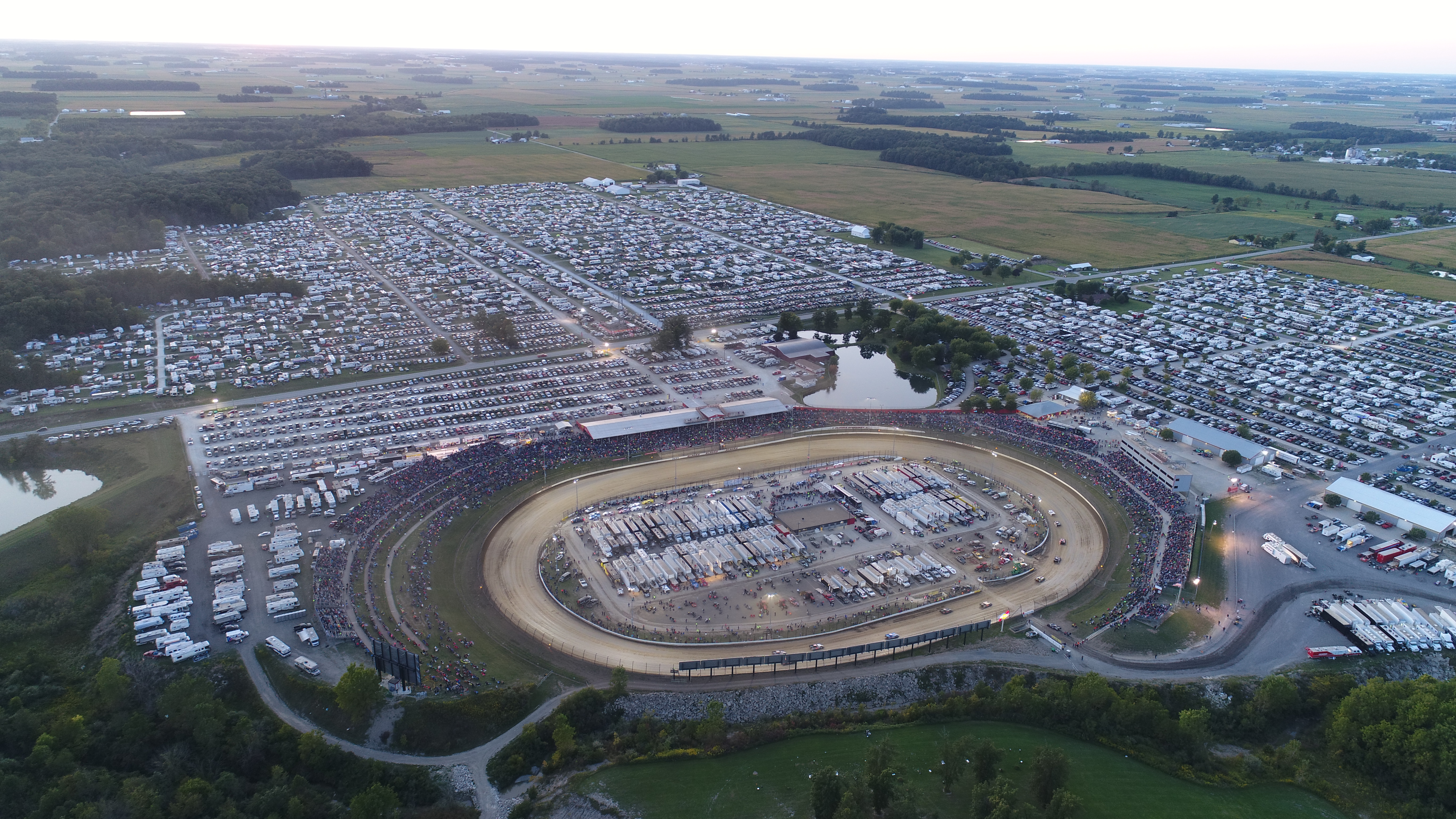 A record crowd experiences the 47th running of the World 100 at Eldora Speedway in Rossburg, Ohio.